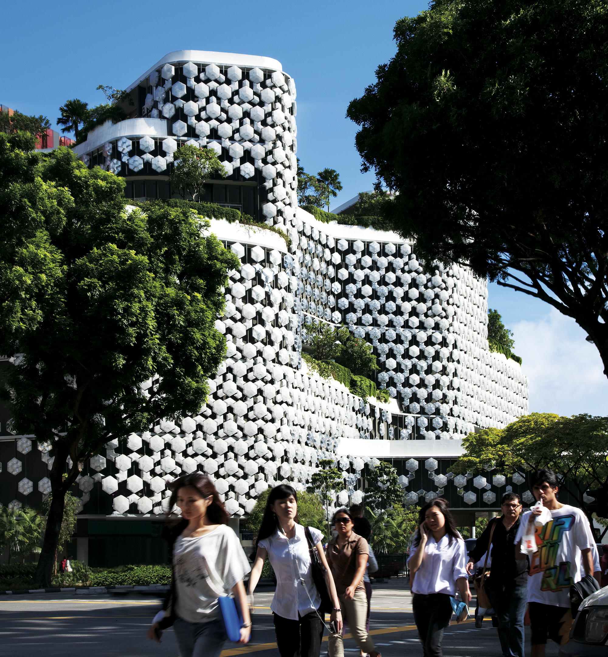 Bugis+ shopping mall, formerly known as Iluma shopping mall, Singapore.